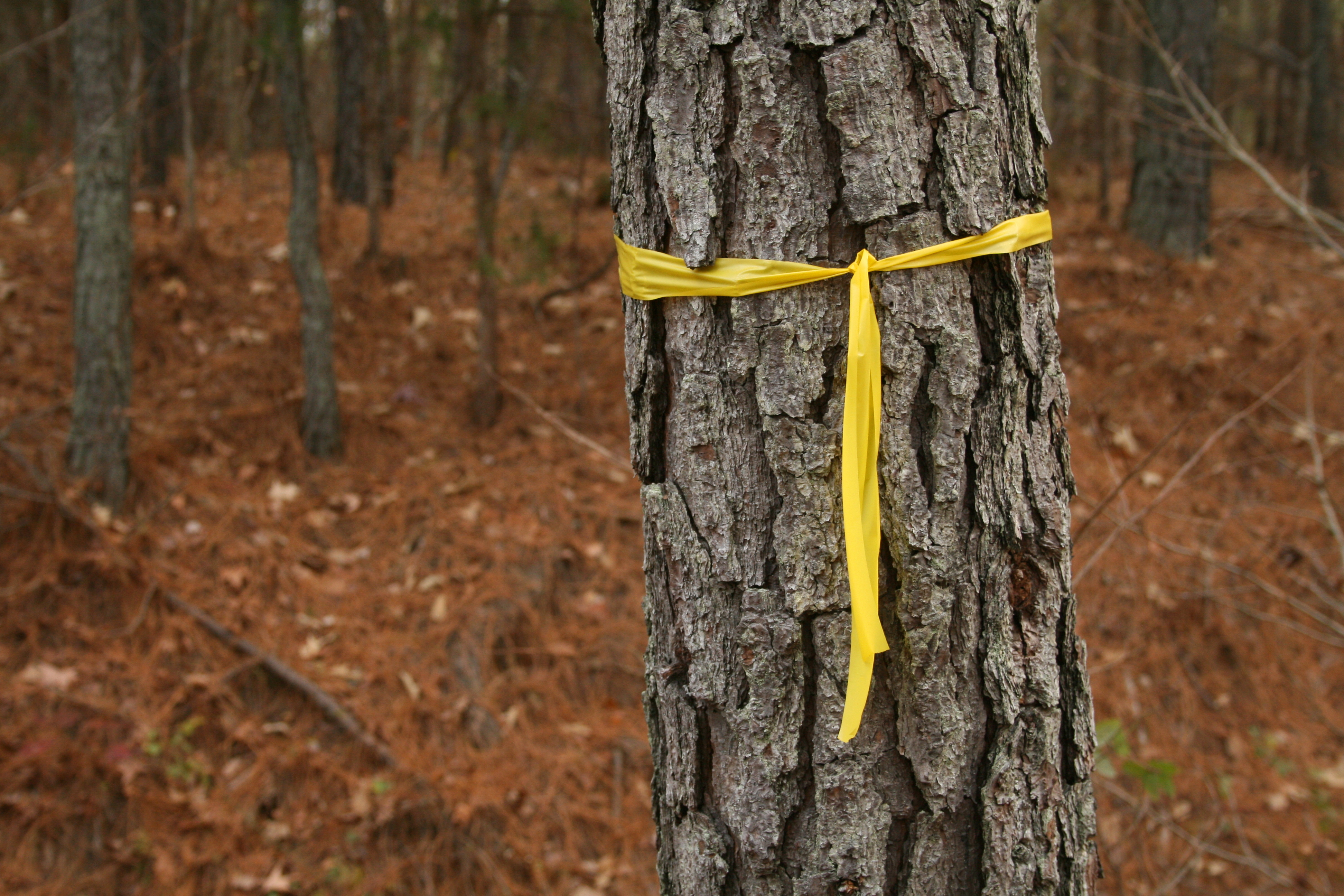 A yellow ribbon marking a tree on the American Tobacco Trail in Durham, North Carolina.